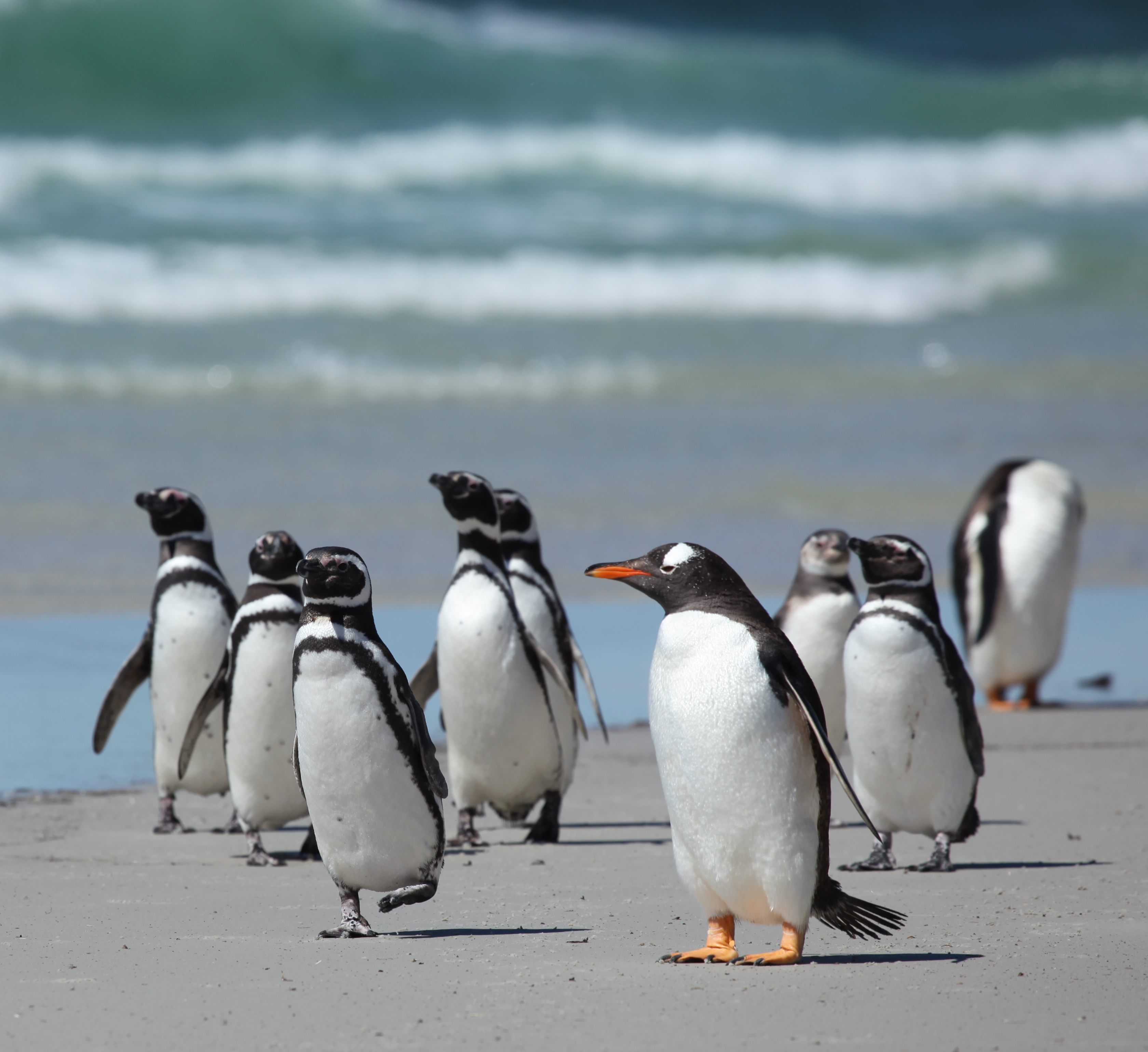 On Saunders Island in the Falkland Islands.